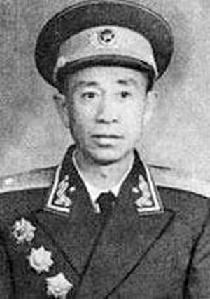 Zhou Xueyi